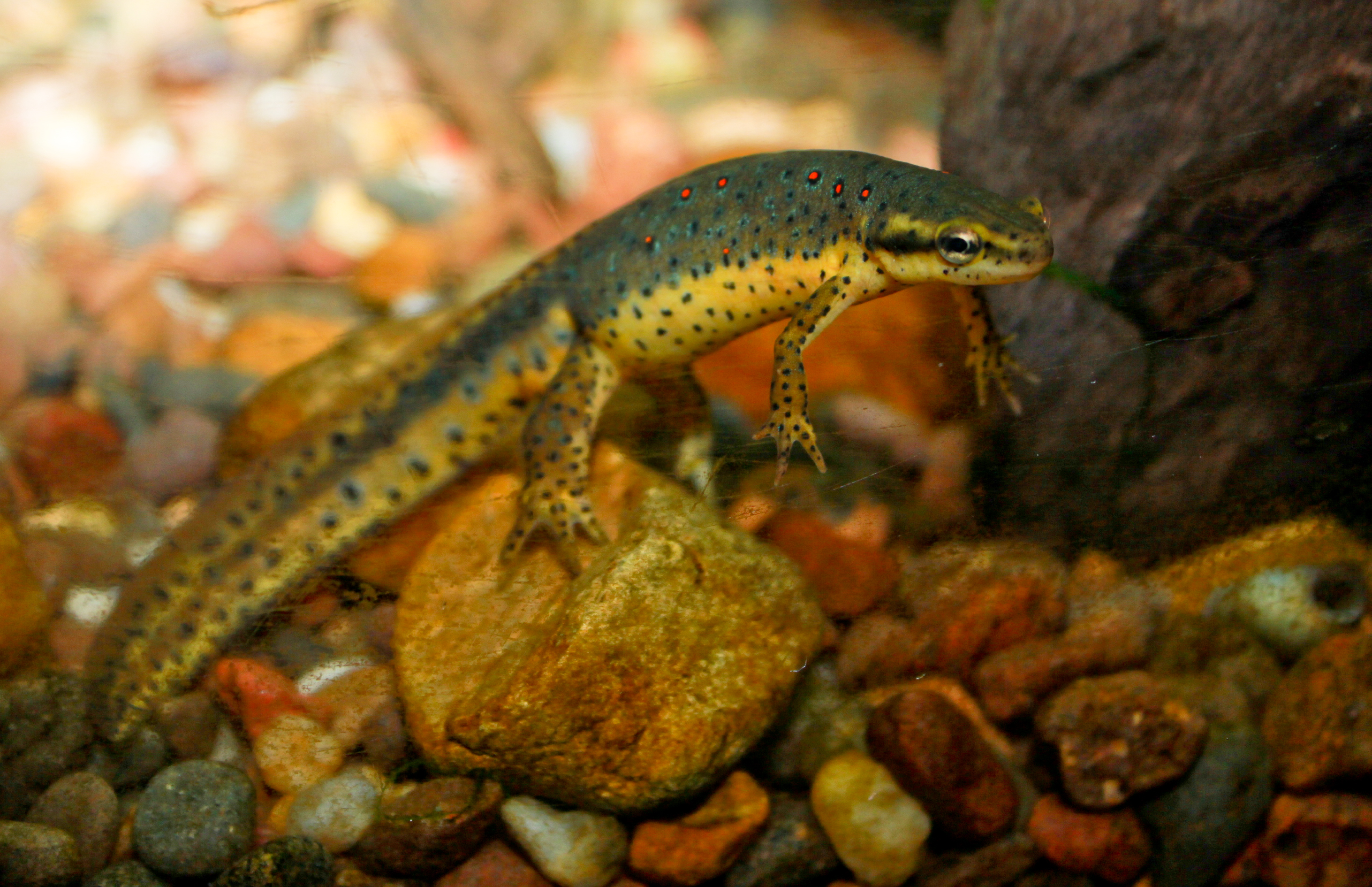 Adult male red-spotted newt (Notophthalmus viridescens viridescens), a subspecies of the eastern newt, a common salamander of eastern North America.